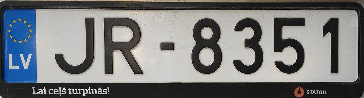 Latvian license plate.